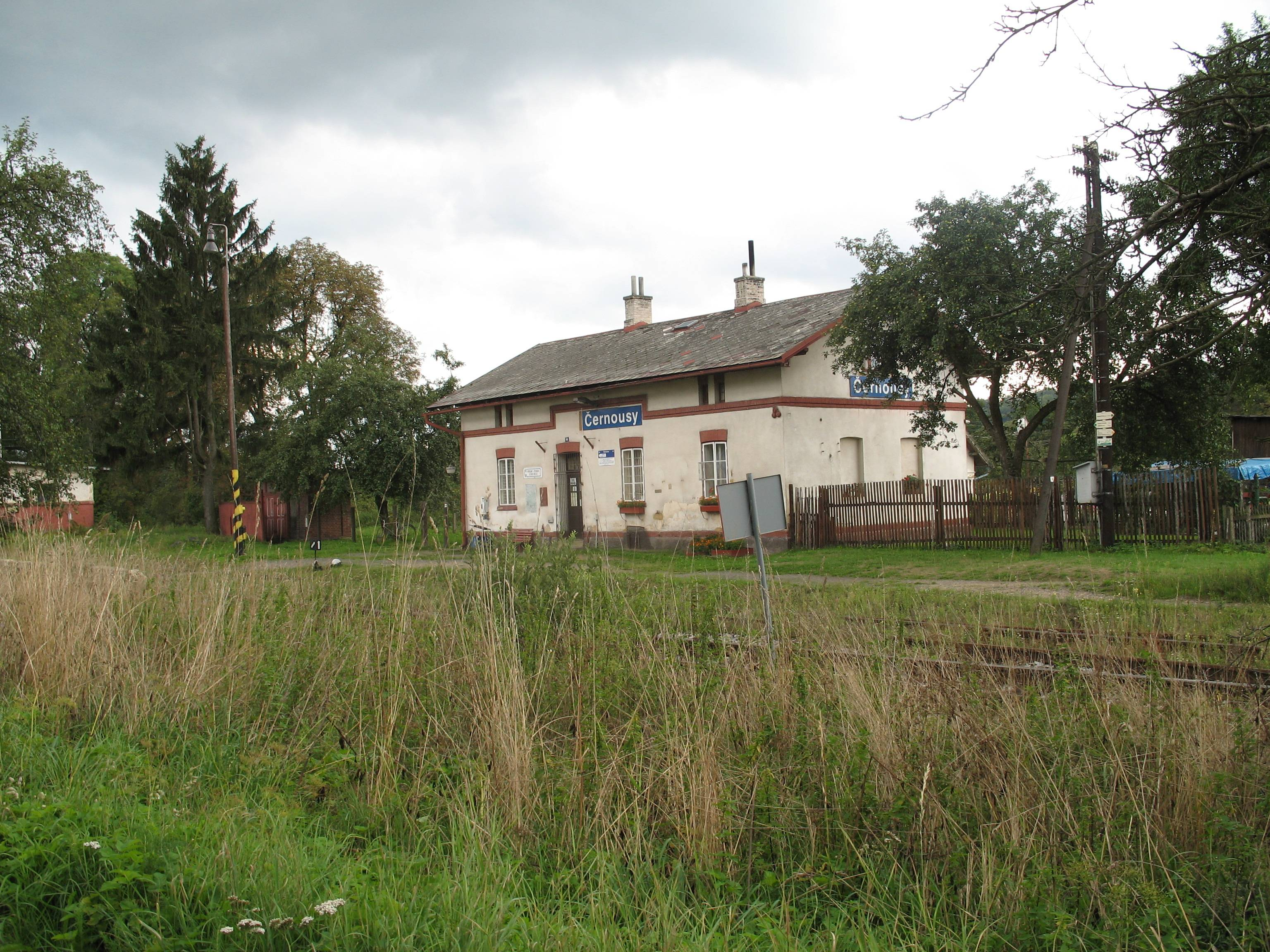 Bahnhof Černousy